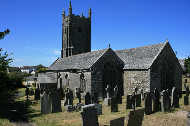 St Marnock's Church in Lanreath